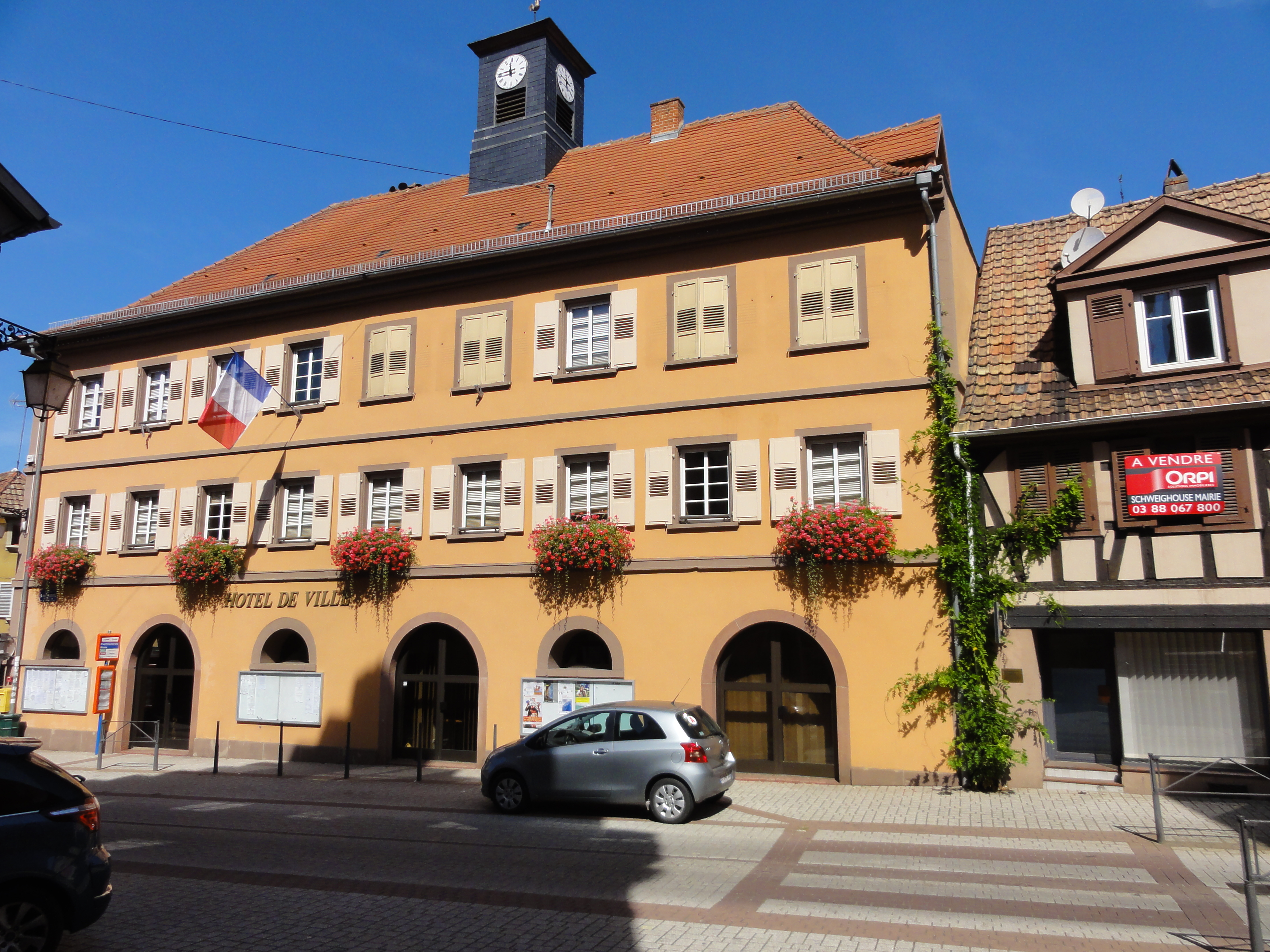 Alsace, Bas-Rhin, Pfaffenhoffen, Hôtel de ville (1837): It is indexed in the Base Mérimée, a database of architectural heritage maintained by the French Ministry of Culture, under the references PA00084893 and IA67010139.